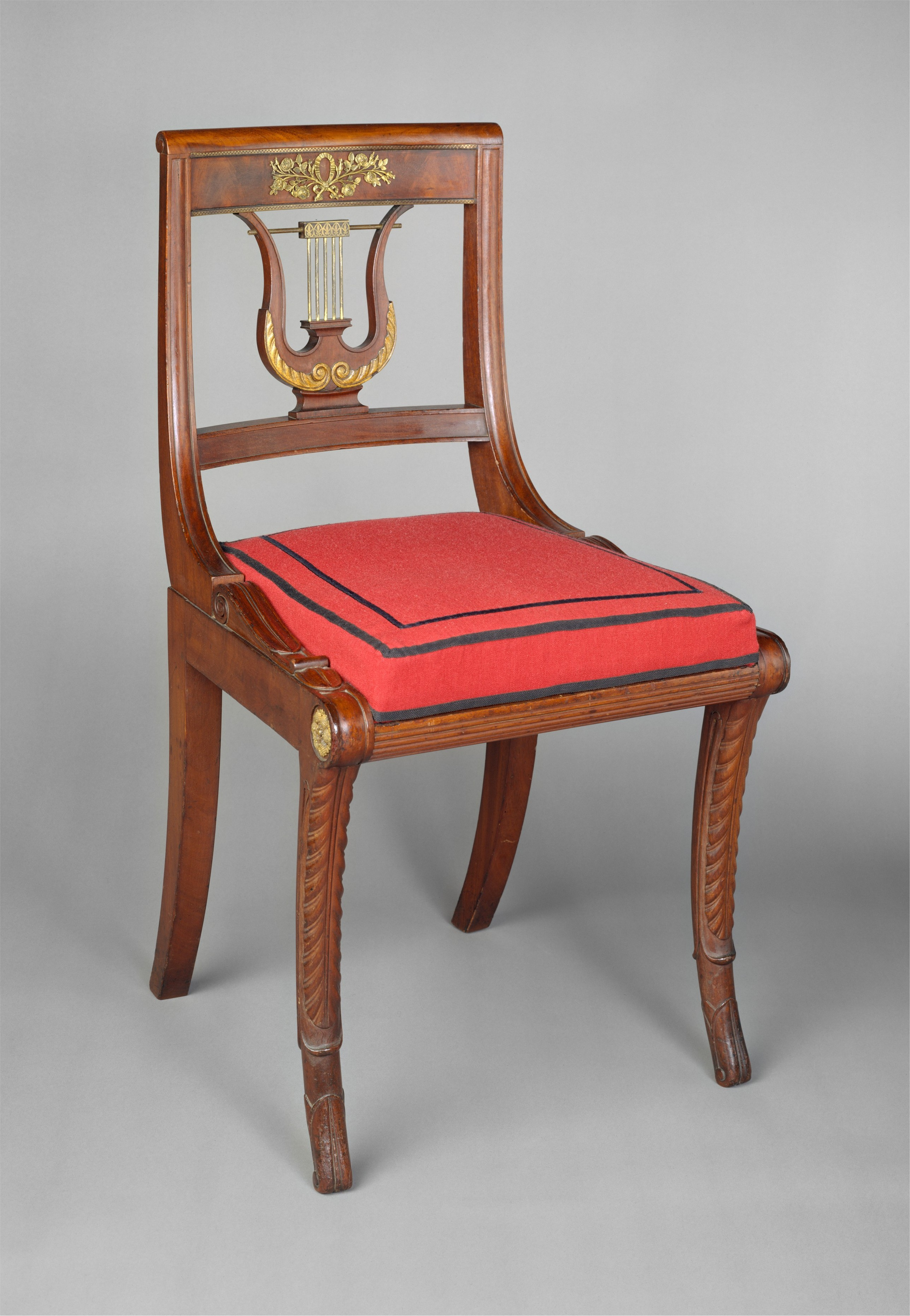 American; Side chair; Furniture